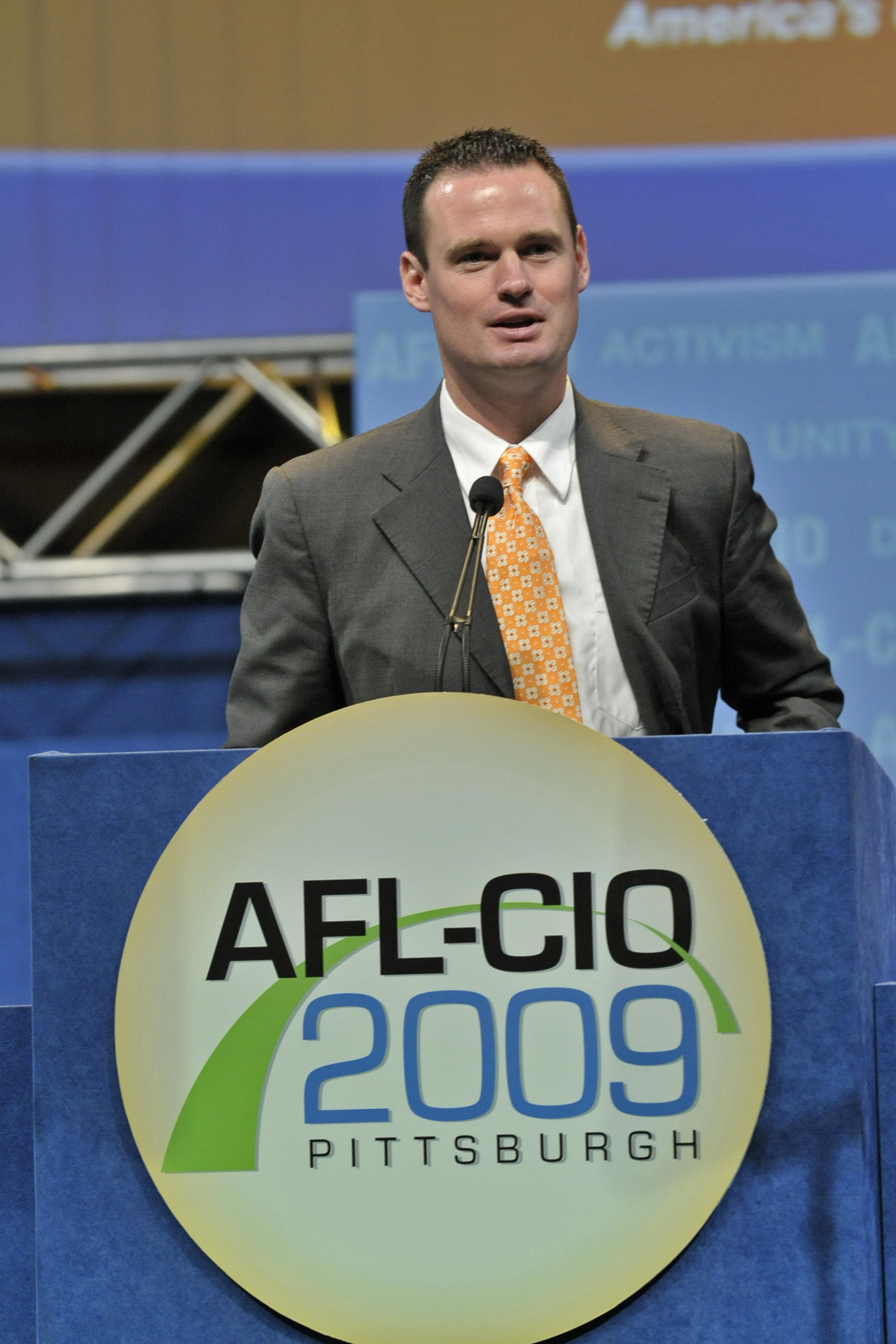 Luke Ravenstahl at AFLCIO 2009 conference